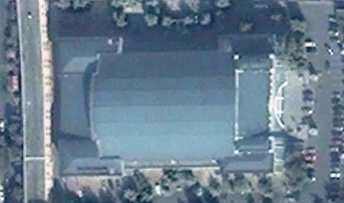 Changchung Gymnasium